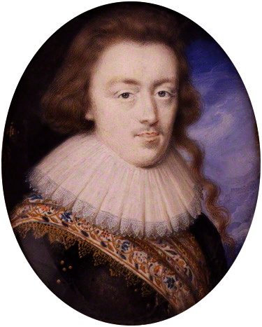 Portrait of Dudley North, 4th Baron North (1602-1677)